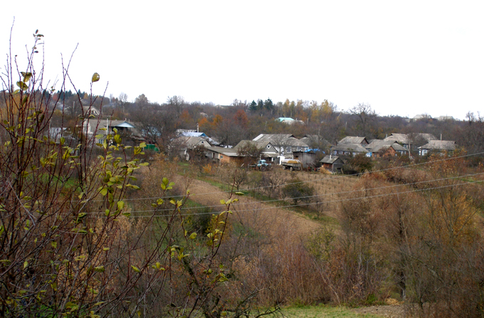 Село Зоряне Віньковецького району. Перший дзвоник в Зорянській ЗОШ 2010 рік